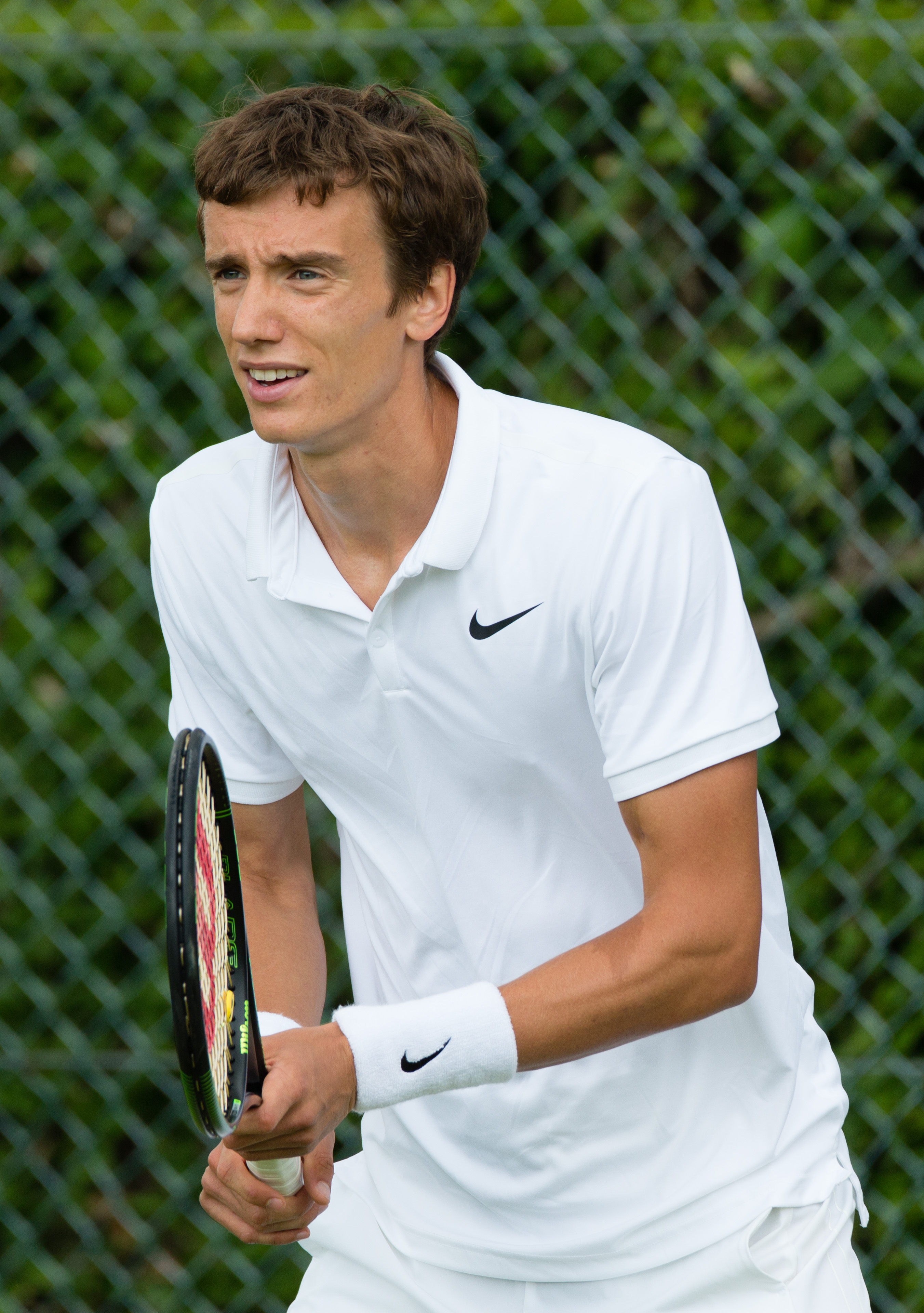 Andrey Kuznetsov competing in the first round of the 2015 Wimbledon Qualifying Tournament at the Bank of England Sports Grounds in Roehampton, England. The winners of three rounds of competition qualify for the main draw of Wimbledon the following week.